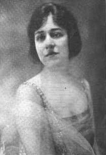 Edith Bideau, from a 1920 publication. A young white woman with dark hair, in a formal gown.